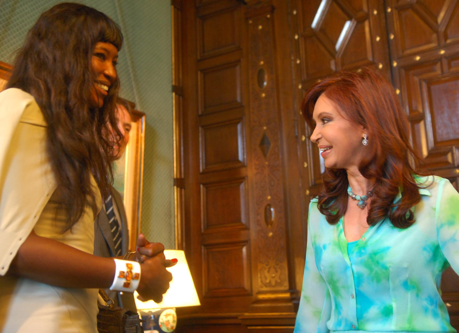 Naomi Campbell with Cristina Fernández de Kirchner